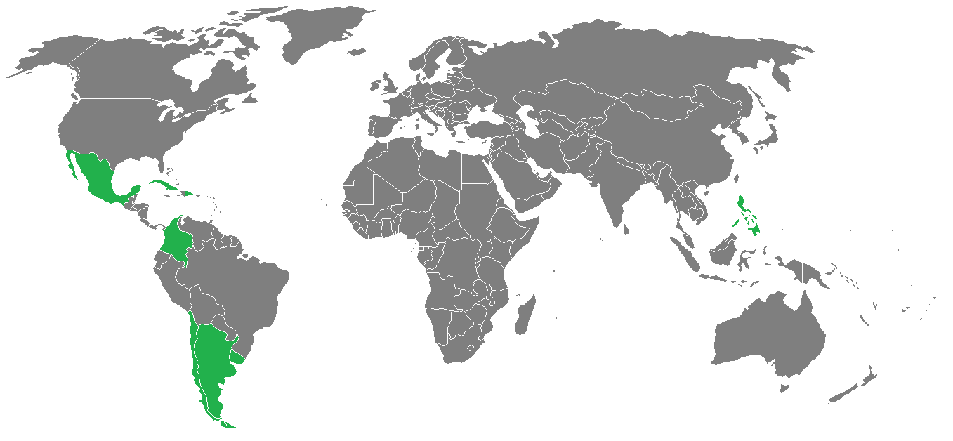 Map of the world (Peso users).